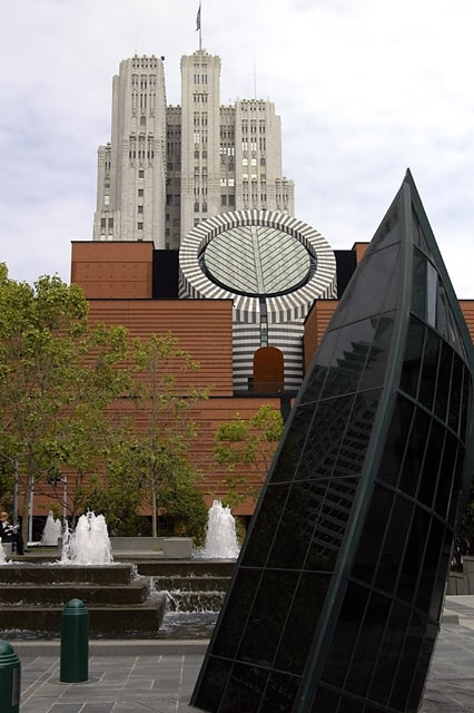 San Francisco Museum of Modern Art.